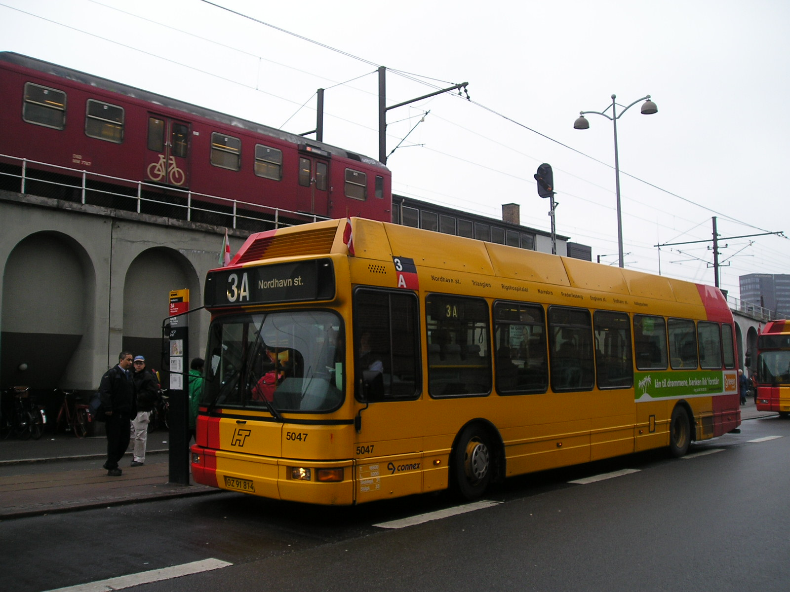 Due to Dialogdag (Dialogue Day) the buses in Copenhagen was driving with forreign flags. Bus line 3A at Nordhavn Station.